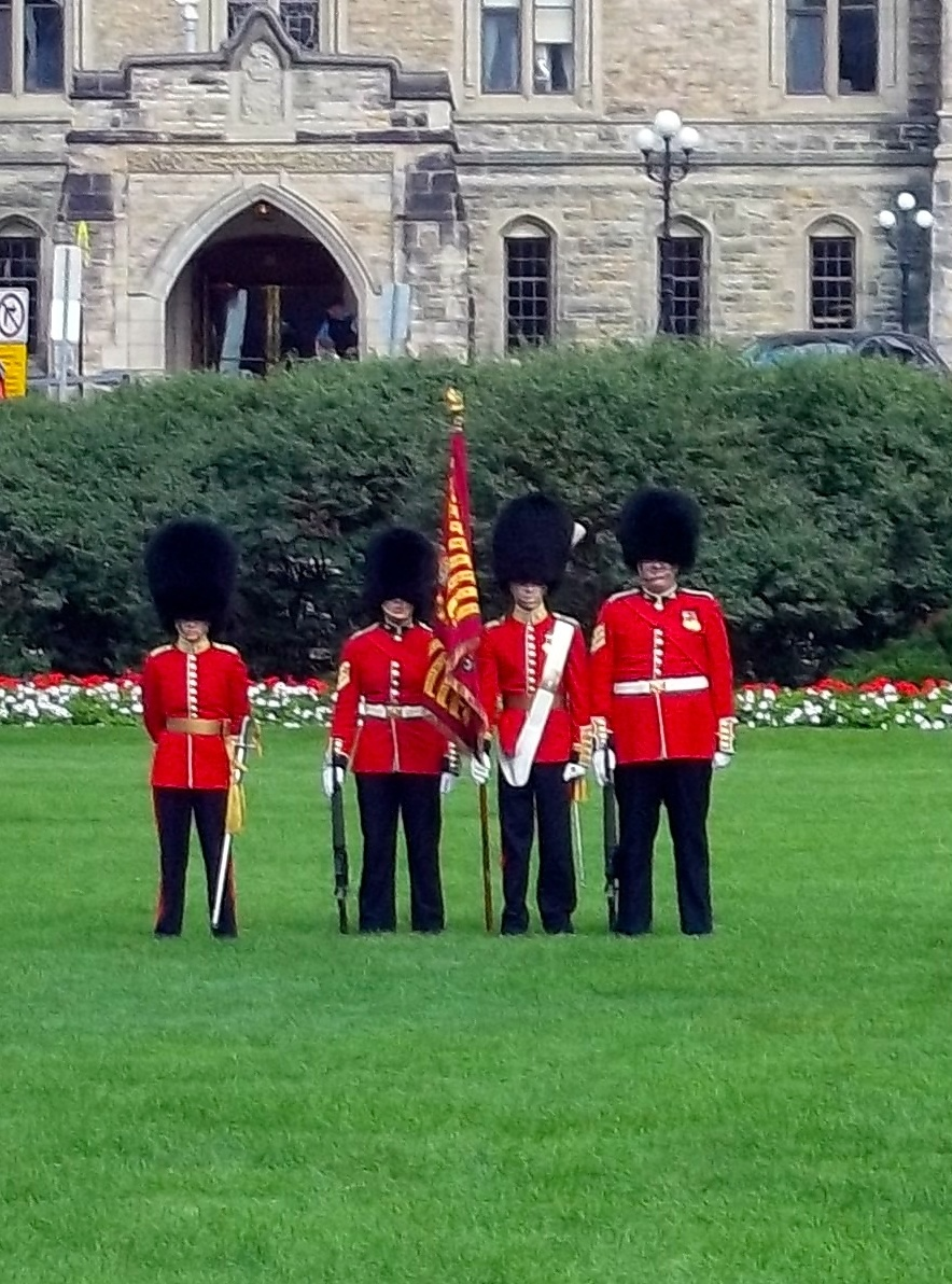 Changing of the guard